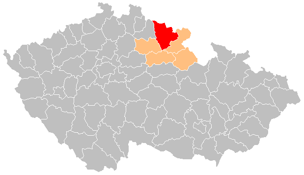 District of Trutnov